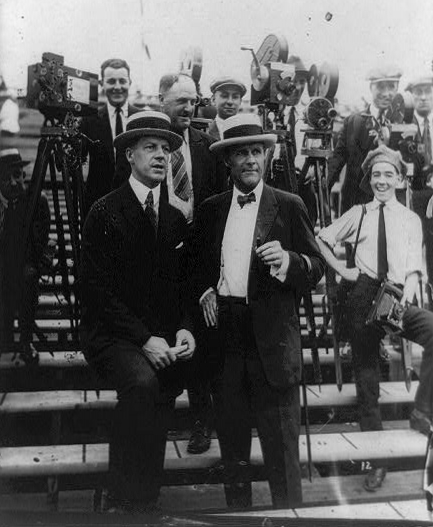 Dempsey-Carpentier boxing match at Boyle's Thirty Acres, Jersey City, N.J.: Tex Rickard standing on right of another man in front of photographers. Dan Streible captioned as follows: Tex Rickard (right) and Fred C. Quimby with newsreel cameras, promoting the Dempsey-Carpentier fight (1921). The photo op was a brazen reminder that they would be recording the fight knowing that the film's distribution would be illegal. --Streible, Dan (April 2008) "Bootlegging" in Fight Pictures: A History of Boxing and Early Cinema, University of California Press, p. 271 ISBN: 978-0520250758.